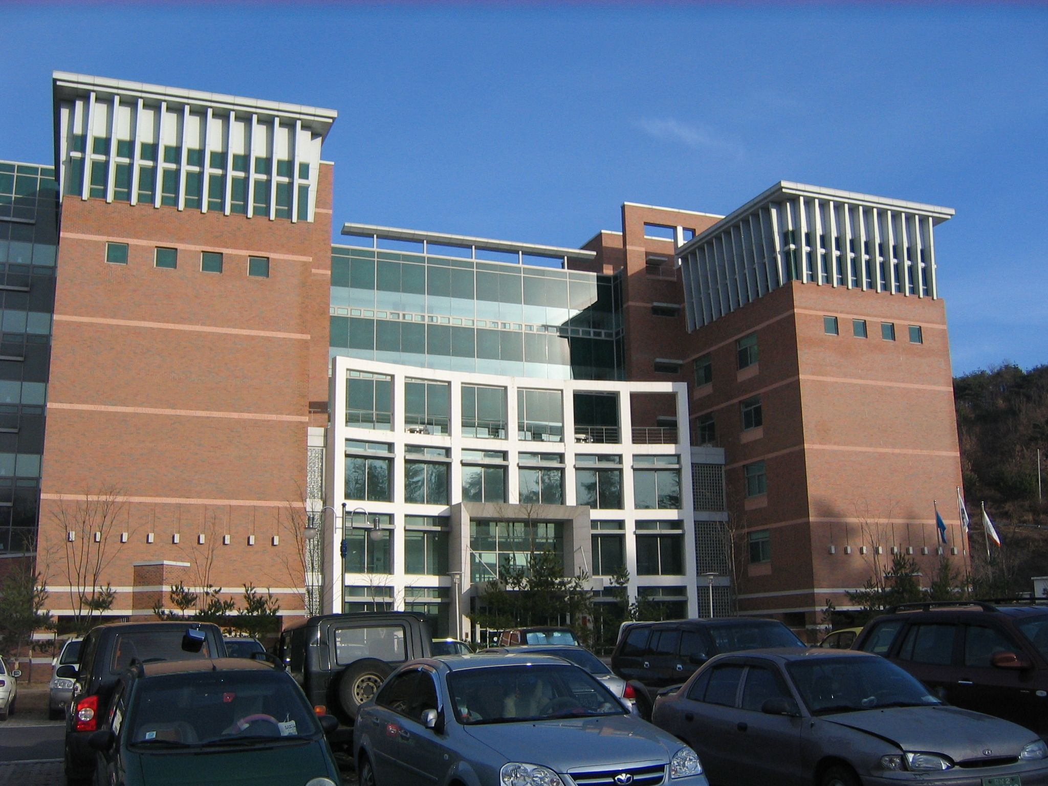 College of Nanotechnology at the Miryang campus of Pusan National University.